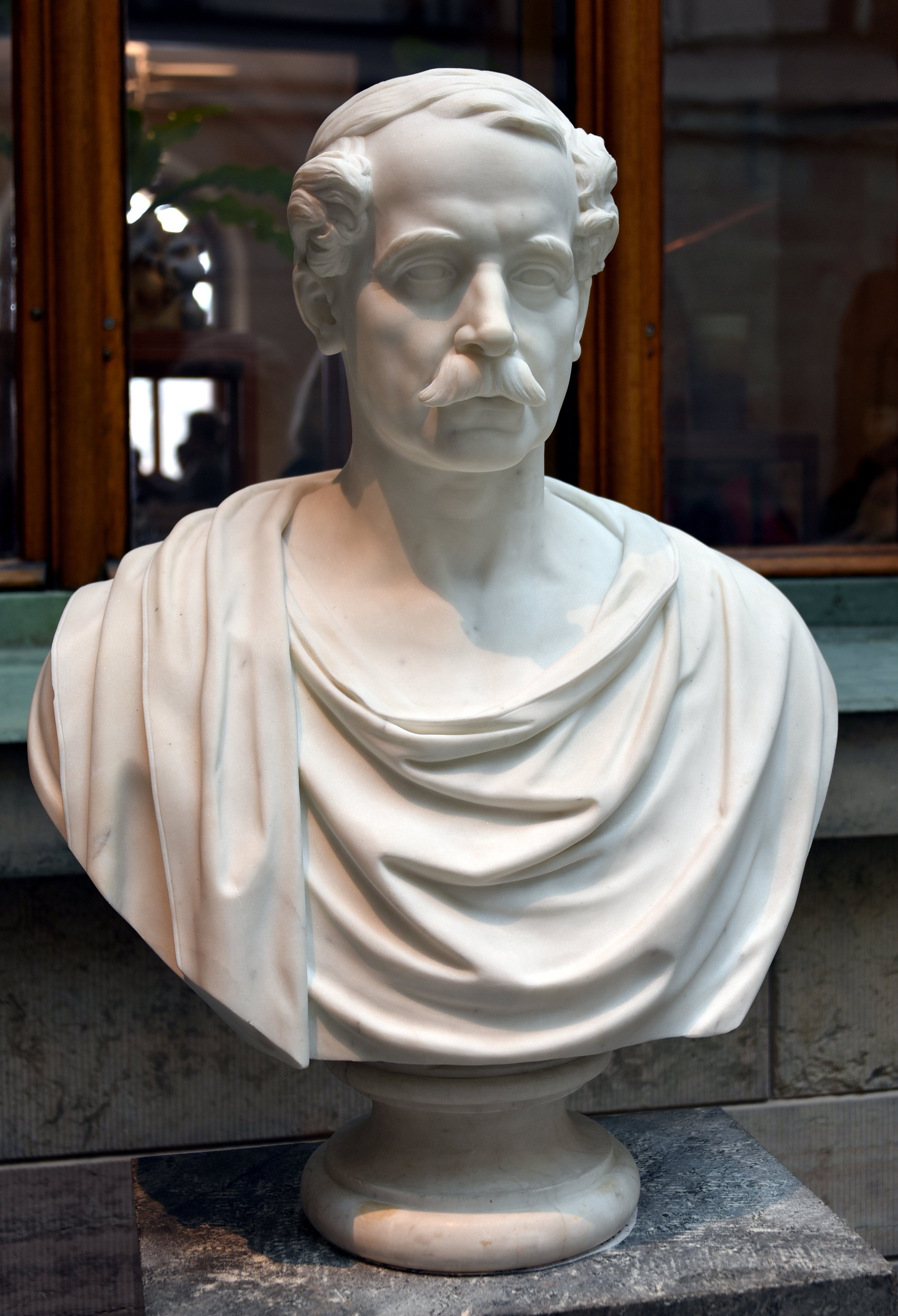 Nils Ericson, Baron and Engineer, by Johannes Fritiof Kjellberg (1836-1885). Marble. Nationalmuseum, Stockholm, Sweden. Gift Nils Ericsons 18877. NMSk 689.